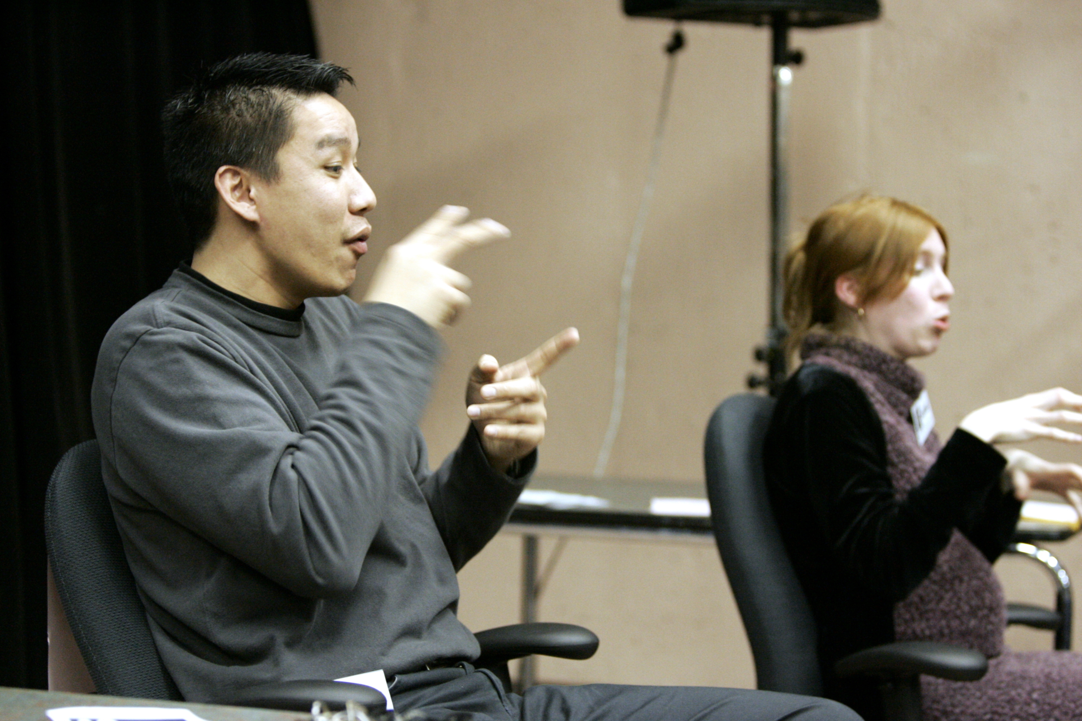 pictures of 2 sign language interpreters working together as a team for a student association meeting. I've had their agreement to post it on Wikipedia.